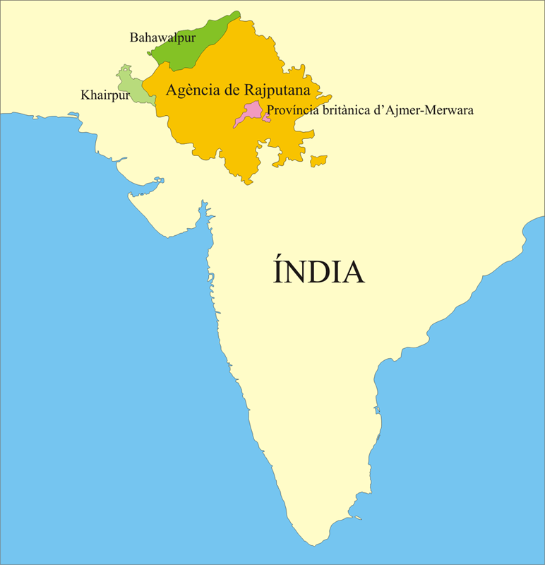 map of Rajputana agency S. XX